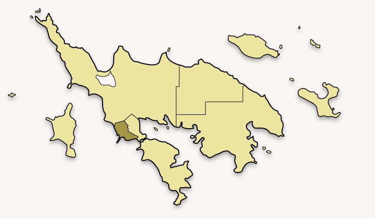 Map of Culebra (Puerto Rico) highlighting Playa_Sardina_I ward